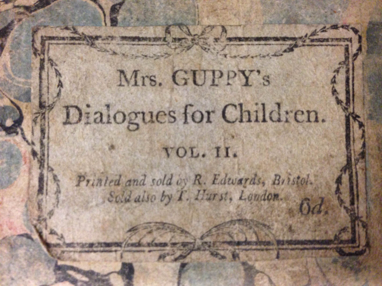 Slightly worn cover of Mrs. Guppy's Dialogues for Children, vol. II, (Bristol, 1800) by Sarah Guppy (1770-1852). *EC8.Ed377.Y800g Miniatures Box 1, sec. 12, Houghton Library, Harvard University